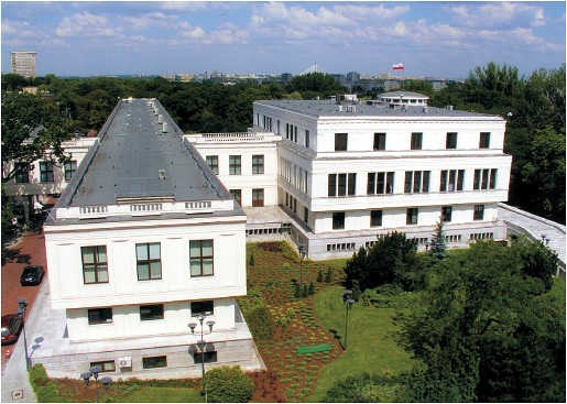 The Polish Senate. Picture from the Senate's website. Copyrights to this picture belong to the Senate of the Republic of Poland, permission was given to release it under the GFDL.